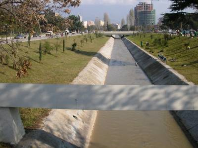 A view of the Lana banks after having been cleared of illegal constructions.